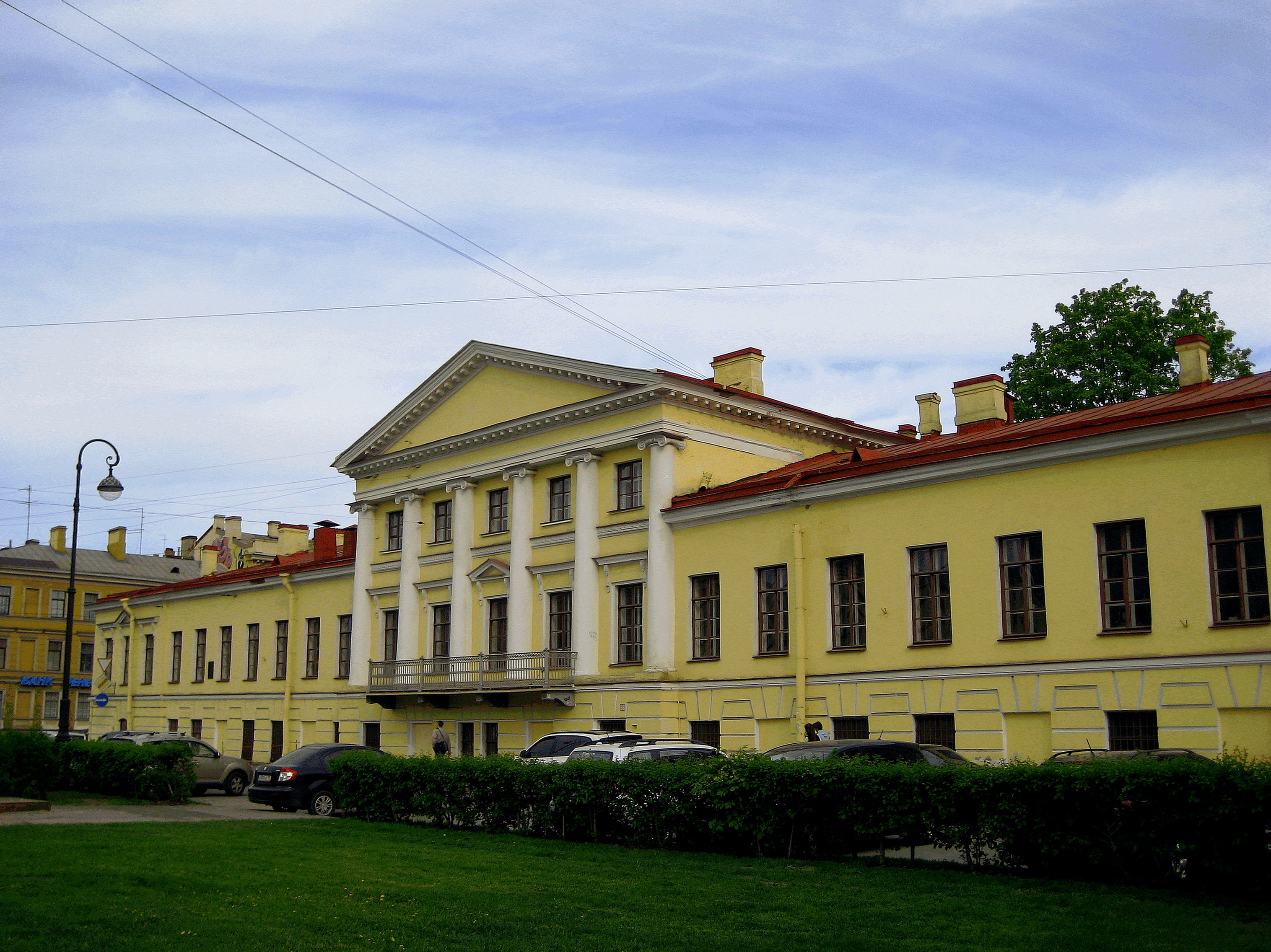 Printing house of the Academy of Sciences (architect Porto A., Filippov DE), 1808-1810, 1829-1830: Bolshoy prospect, 28. Vasileostrovsky district, St. Petersburg.